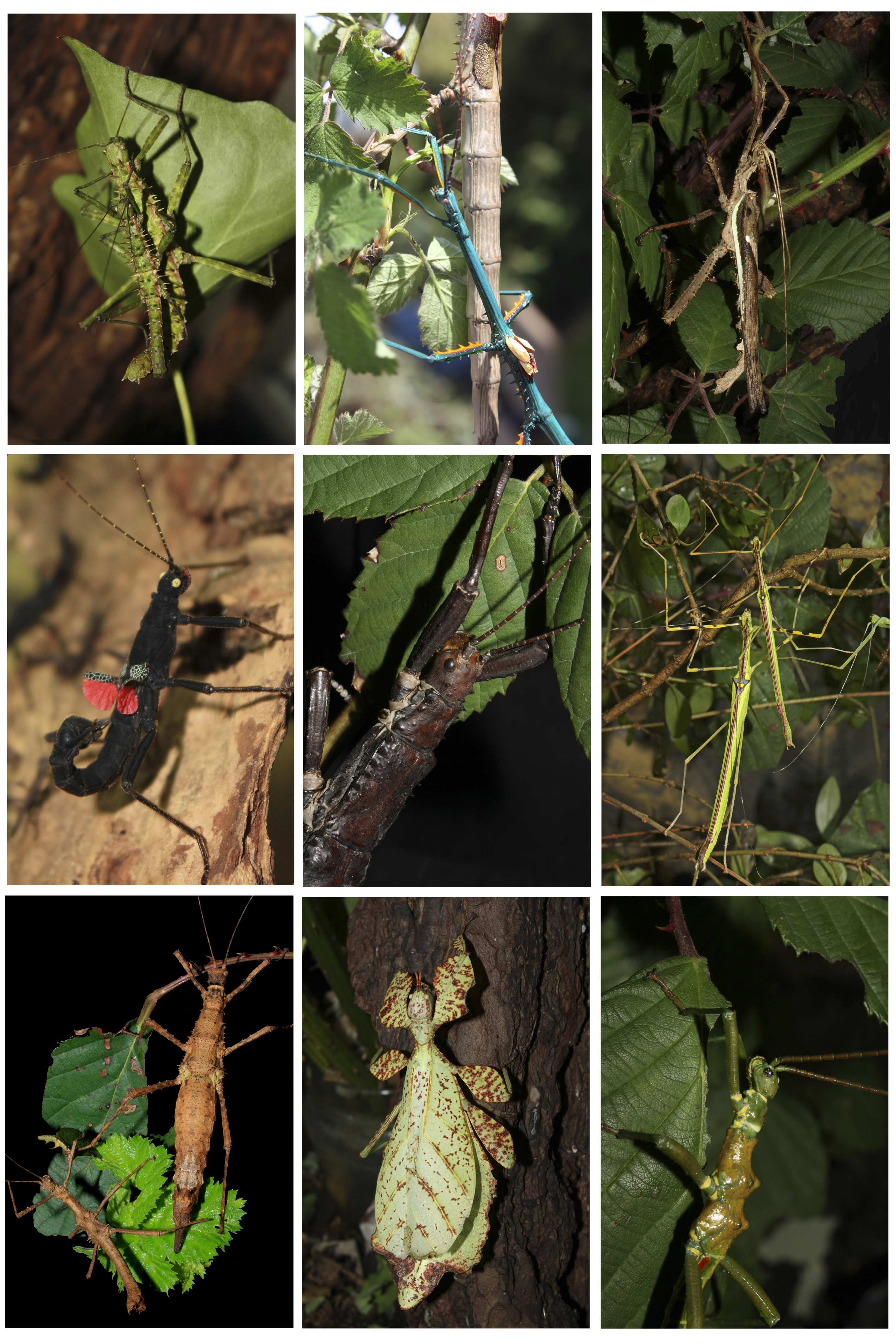 1. row, left: pair of Spinohirasea bengalensis, center: Achrioptera manga, right: male of Jungle Nymph (Heteropteryx dilatata); 2. row, left: male of Golden-Eyed Stick Insect (Peruphasma schultei), center: male of Giant Spiny Stick Insect (Eurycantha calcarata), right: pair of Yellow Flying Stick (Necroscia annulipes); 3. row, left: pair of Brasidas foveolatus, center: female of Phyllium ericoriai, right: male of Mearnsiana bullosa